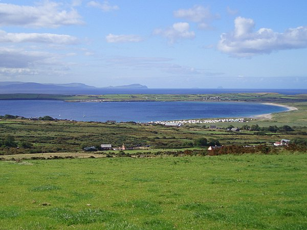 Ventry Harbour. A view of pasture land and the beach and holiday resort at Ventry. In the distance the Iveragh Peninsula can be seen, including the Skellig Islands (towards the right).